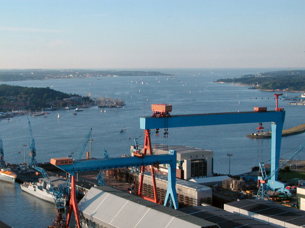 aerial photo of the "Kieler Förde", Kiel, Germany.